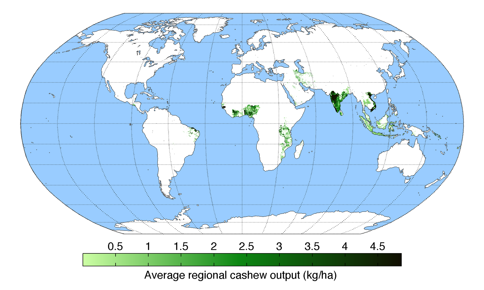 Map of cashew production (average percentage of land used for its production times average yield in each grid cell) across the world compiled by the University of Minnesota Institute on the Environment with data from: Monfreda, C., N. Ramankutty, and J.A. Foley. 2008. Farming the planet: 2. Geographic distribution of crop areas, yields, physiological types, and net primary production in the year 2000. Global Biogeochemical Cycles 22: GB1022